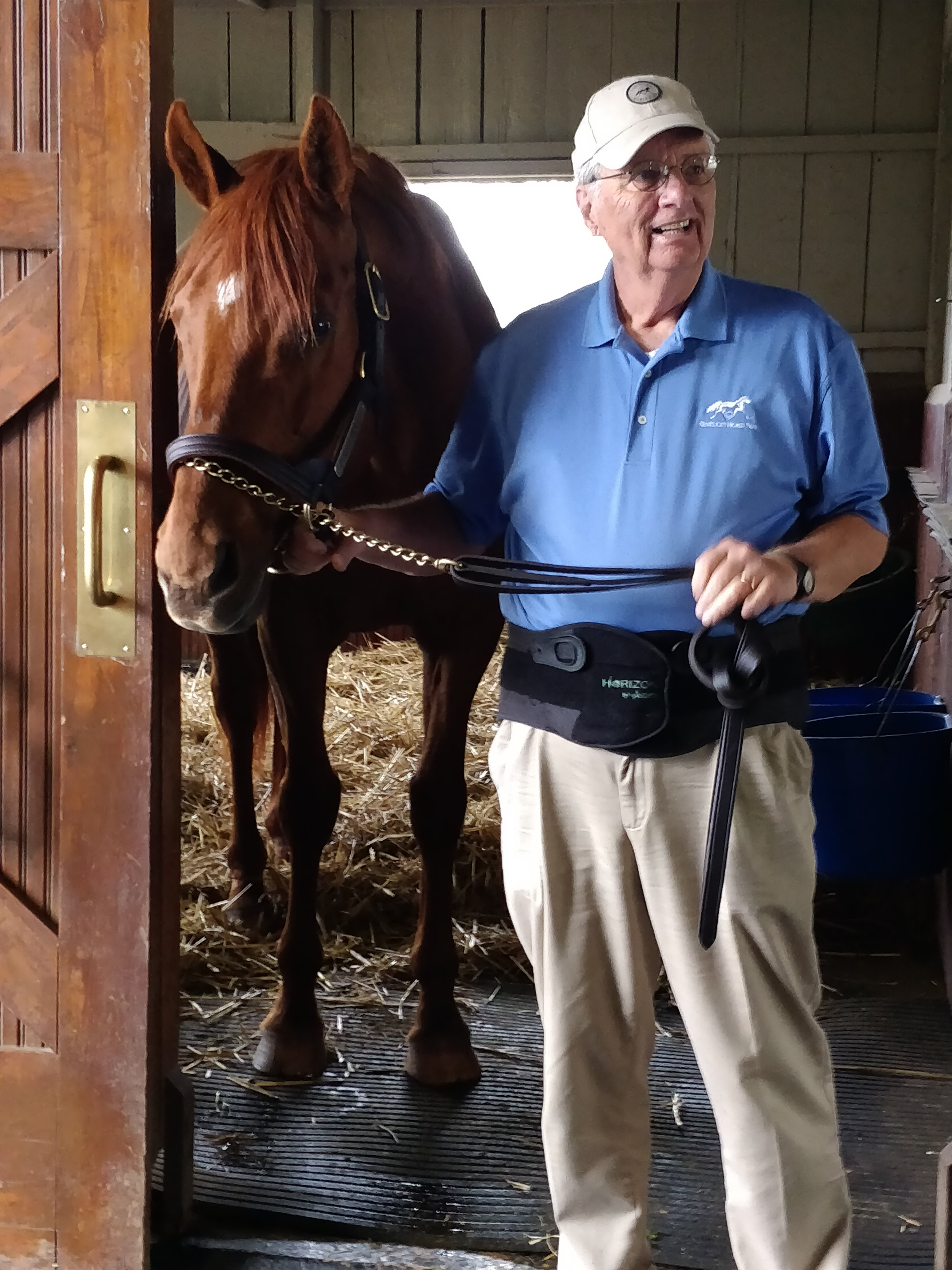 Kentucky horse park hall of champions - Point Given Feel free to use this photo however you like, just attribute . Thanks!